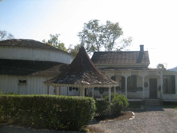 Ladies' Pool House at Jefferson Pools, Warm Springs, Virginia, USA built in 1836